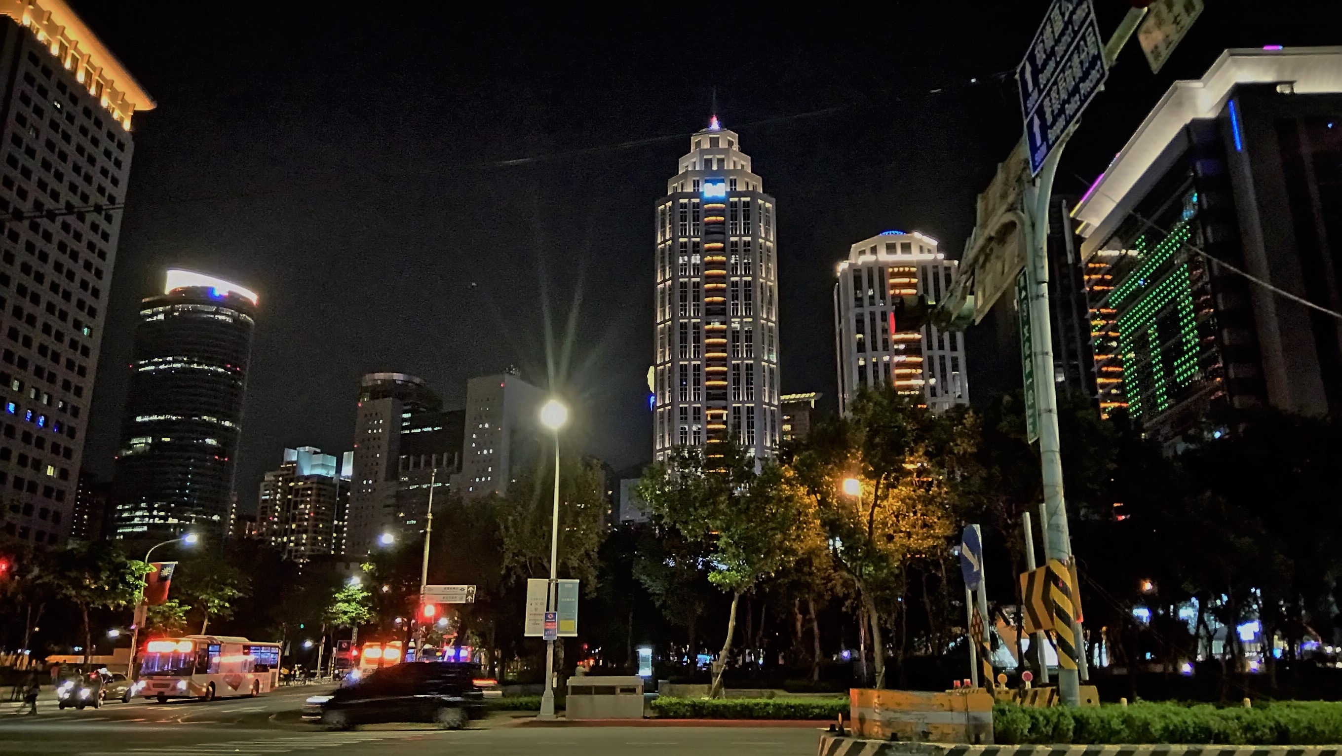 Skyline of Banqiao, New Taipei City, Taiwan.